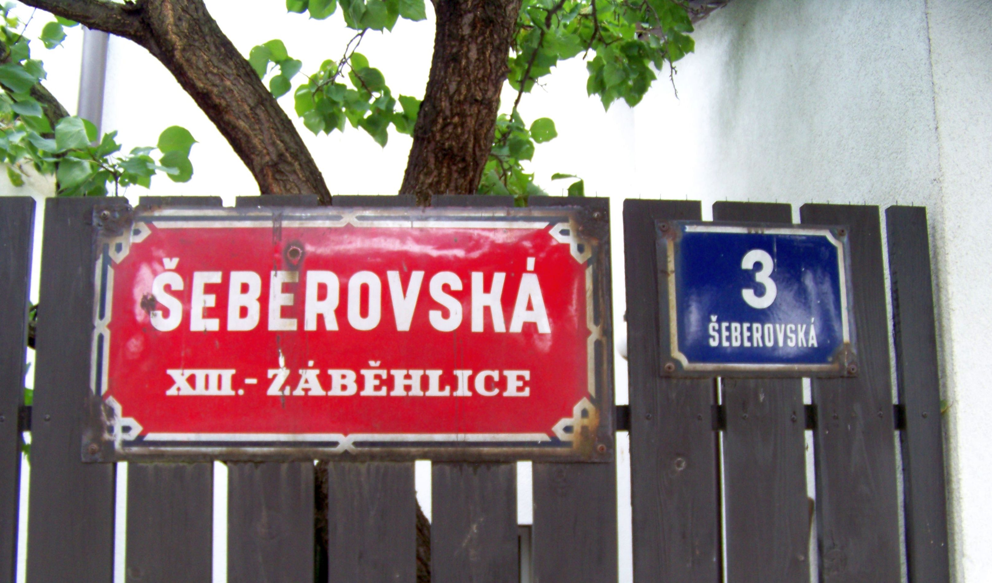 Záběhlice, Prague, the Czech Republic. Šeberovská Street. A street sign and a house number.